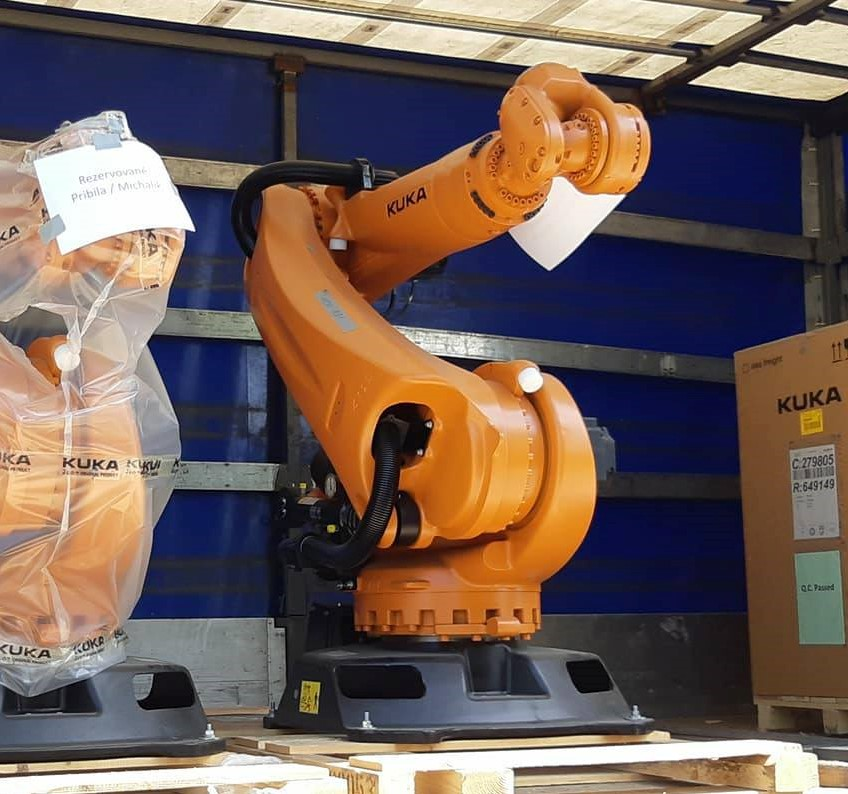 SSOS Polytechnicka Nitra